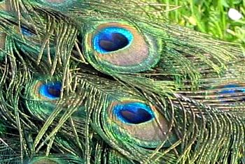 Pavo cristatusPavo cristatus feathers